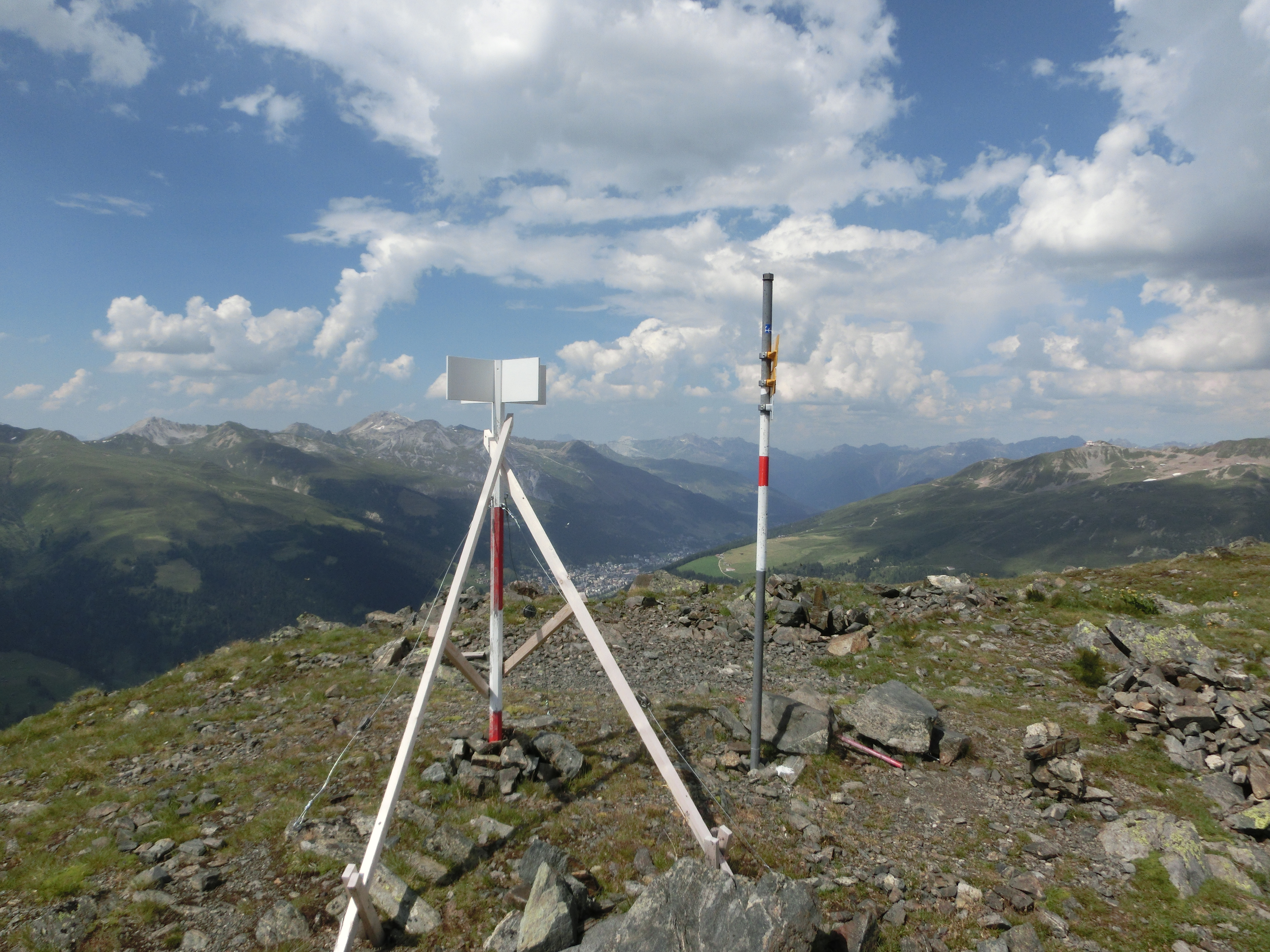 Summit of Rinerhorn, Davos in the background, Grison, Switzerland